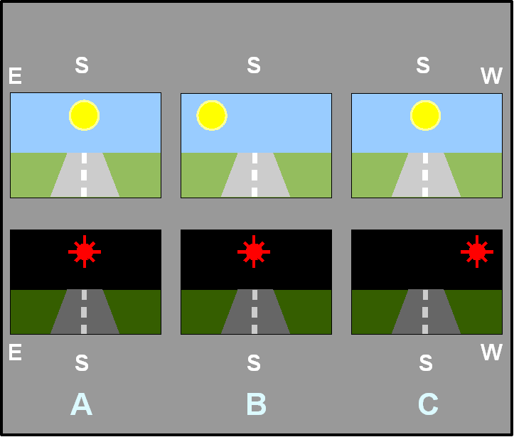 Shows the view of an earth-bound observer of the sun and a star after one rotation-period of earth (sidereal day) and one sun-day.